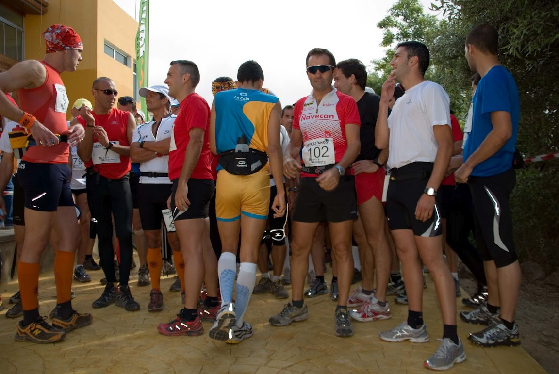 Start of the Arretranco race 2011